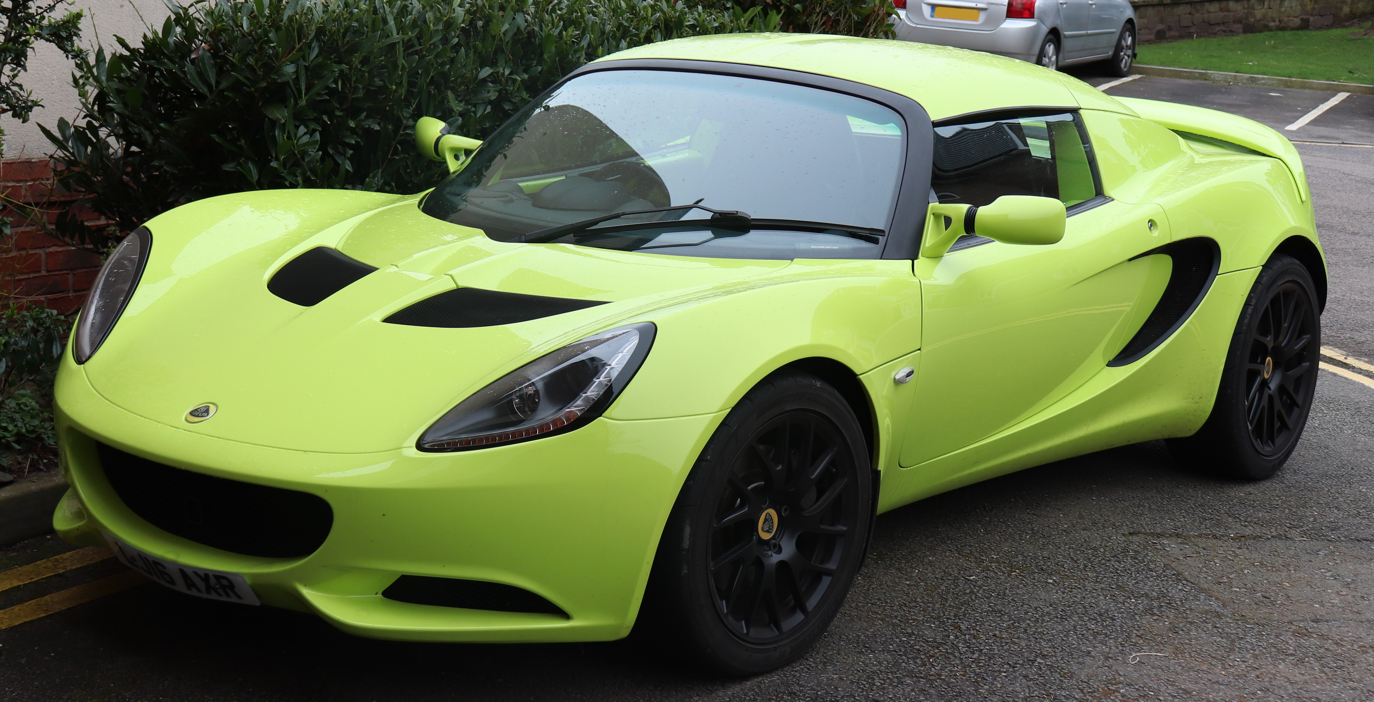 2016 Lotus Elise S 1.8 Front Taken in Warwick